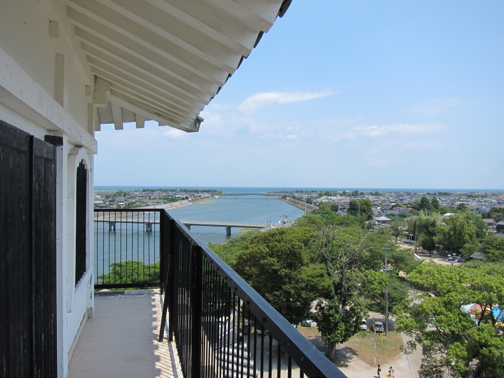 A view from the Tenshu[1] of Nakatsu Castle ↑ Reconstructed in 1964, it is not necessarily of historical accuracy.